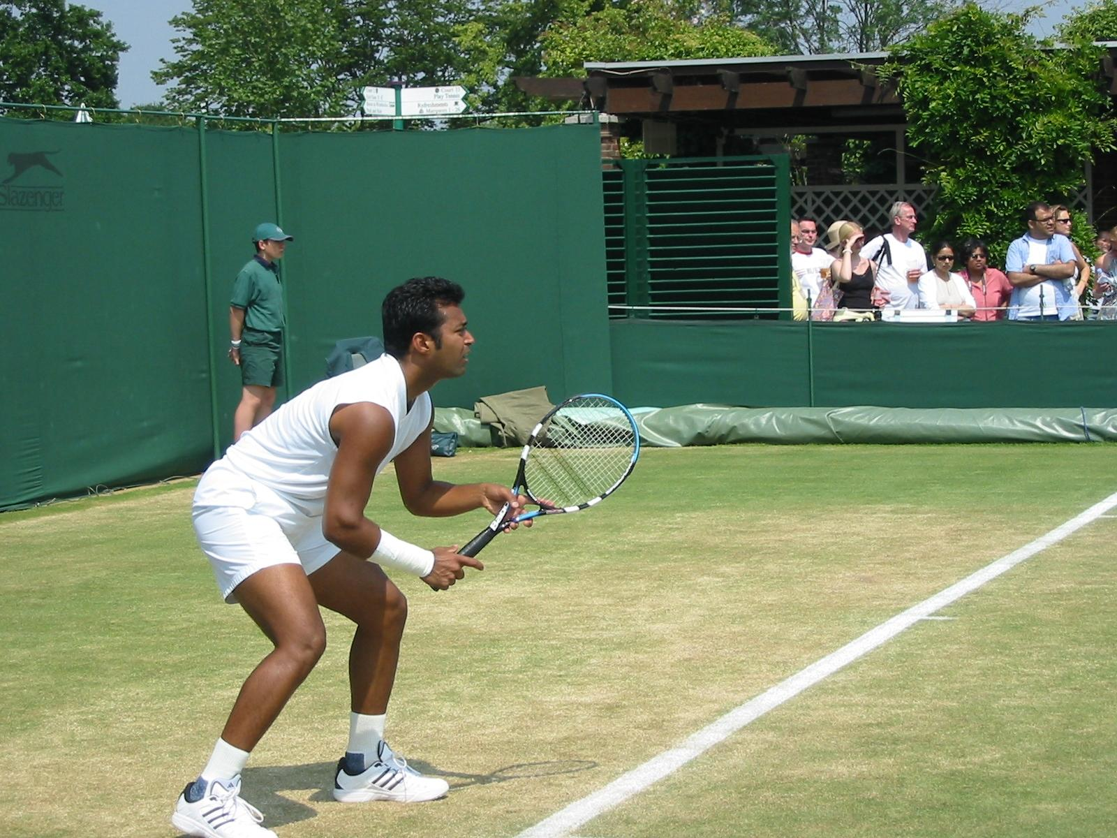 Leander Paes at Wimbledon 2007